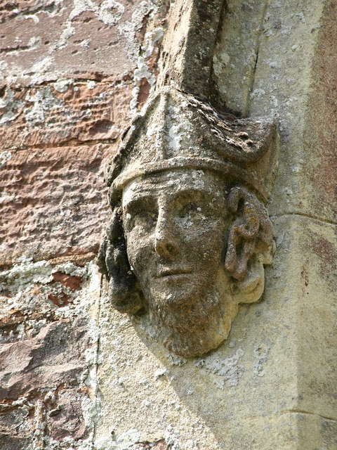 A headstop on St Thomas's parish church, Chevithorne, Devon, in the form of a bishop's mitred head